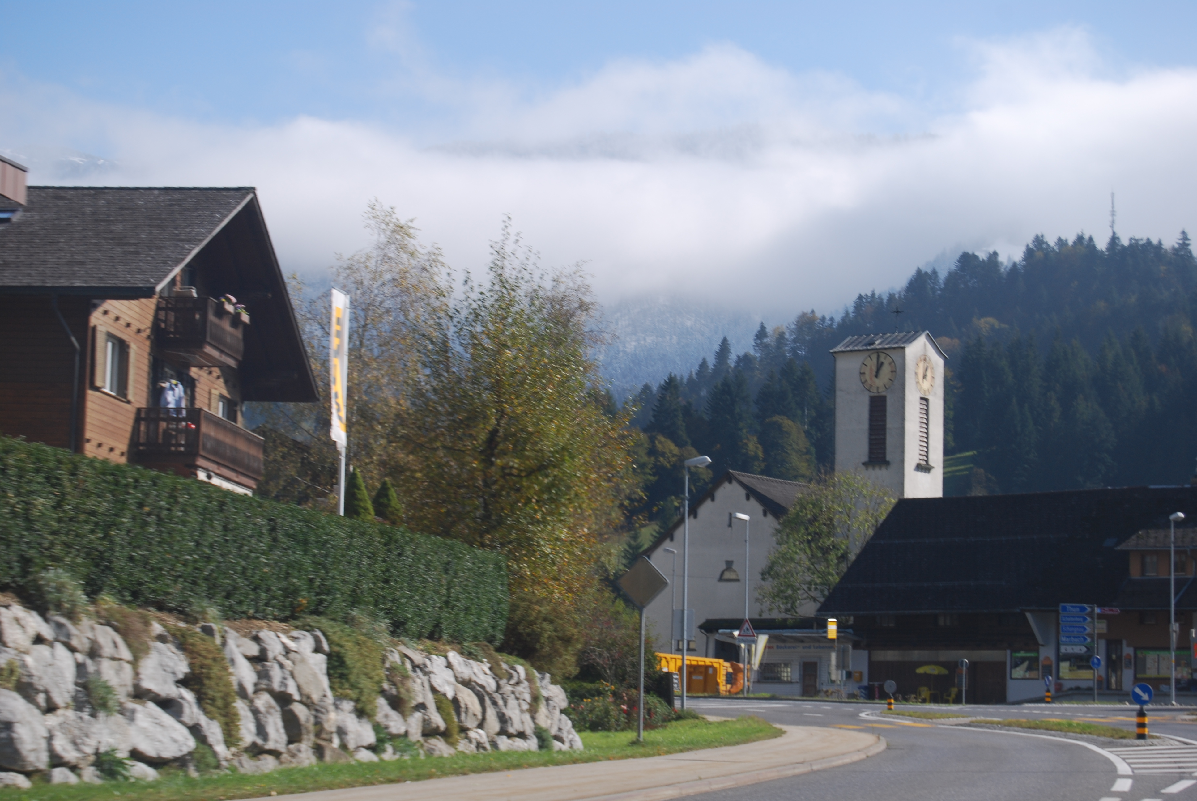 Church of Wiggen, municipality of Escholzmatt, canton of Luzern, SwitzerlandEsperanto: Preĝejo de Wiggen, komunumo Escholzmatt, Kantono Lucerno, Svislando